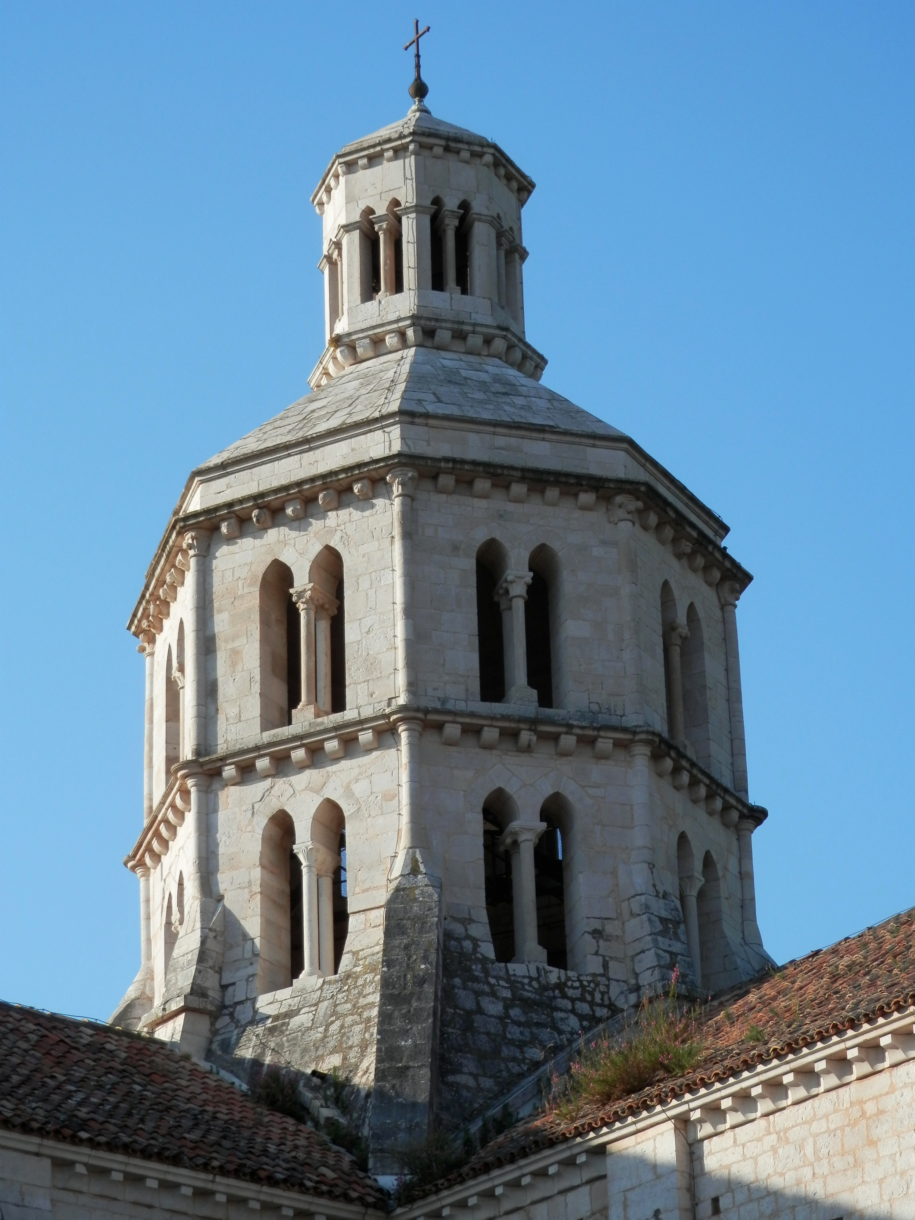 The Fossanova Abbey in Priverno, Province of Latina, Italy